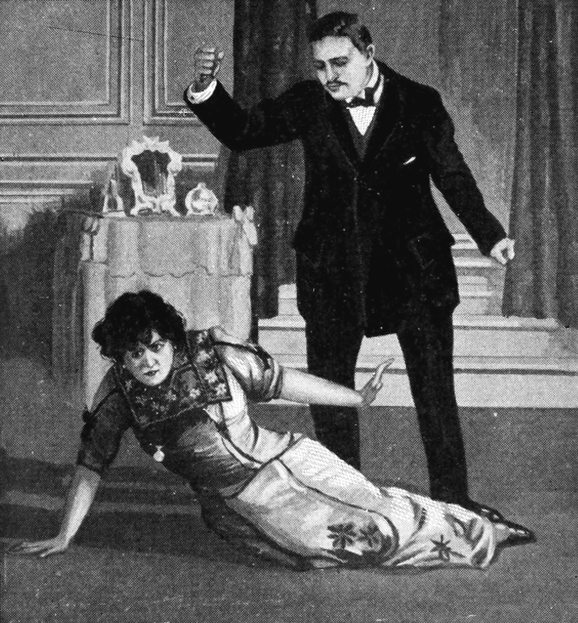 Leoncavallo - Zazà, act IV - Dufresne denouncing Zaza Title: The Victrola book of the opera : stories of one hundred and twenty operas with seven-hundred illustrations and descriptions of twelve-hundred Victor opera records Year: 1917 (1910s) Authors: Victor Talking Machine Company Rous, Samuel Holland Subjects: Operas Publisher: Camden, N.J. : Victor Talking Machine Co. Text Appearing Before Image: e old affectionate way, butshe informs him she knows of his marriage,but that she forgives his deception. Shedeclares she has told Signora Dufresne of theirintimacy, and in a rage he curses her. Shethen sends him away, crying she is cured ofher love, after assuring him that her firststory was untrue, and that Signora Dufresnereally knows nothing of the affair. The role of Cascart is one of Titta Ruffosbest, and his rendition of the great air, BuonaZaza, del mio buon tempo, from the secondact, is a magnificent one. The second selection made by the bari-tone is the air from Act IV, sung by Miliojust before the parting of the lovers. It is ahighly effective number, emotional yet verymelodious. Those who hear these fine airsare likely to regret that the work has not been adequately presented here. Buona Zaza, del mio buon tempo By Titta Ruffo, Baritone (In Italian) 8711^ 10-inch, $2.00 Zaza, piccola zingara (Zaza, Little Gypsy) By Titta Ruffo, Baritone (In Italian) 87125 10-inch, 2.00 553 Text Appearing After Image: DUFRESNE DENOUNCING ZAZA ACT 1311 fffX txC ■ Wi mm H ii